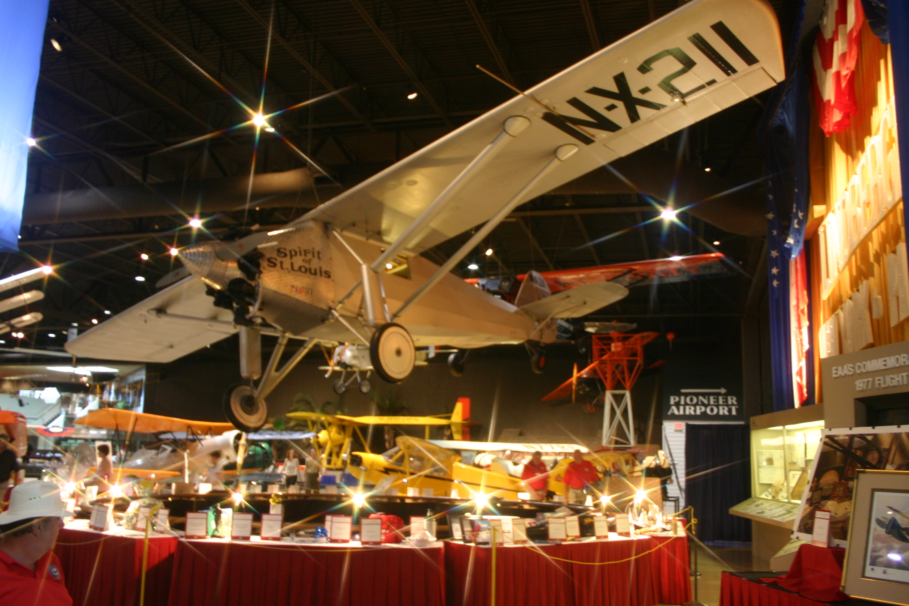 Spirit of St Louis Replica